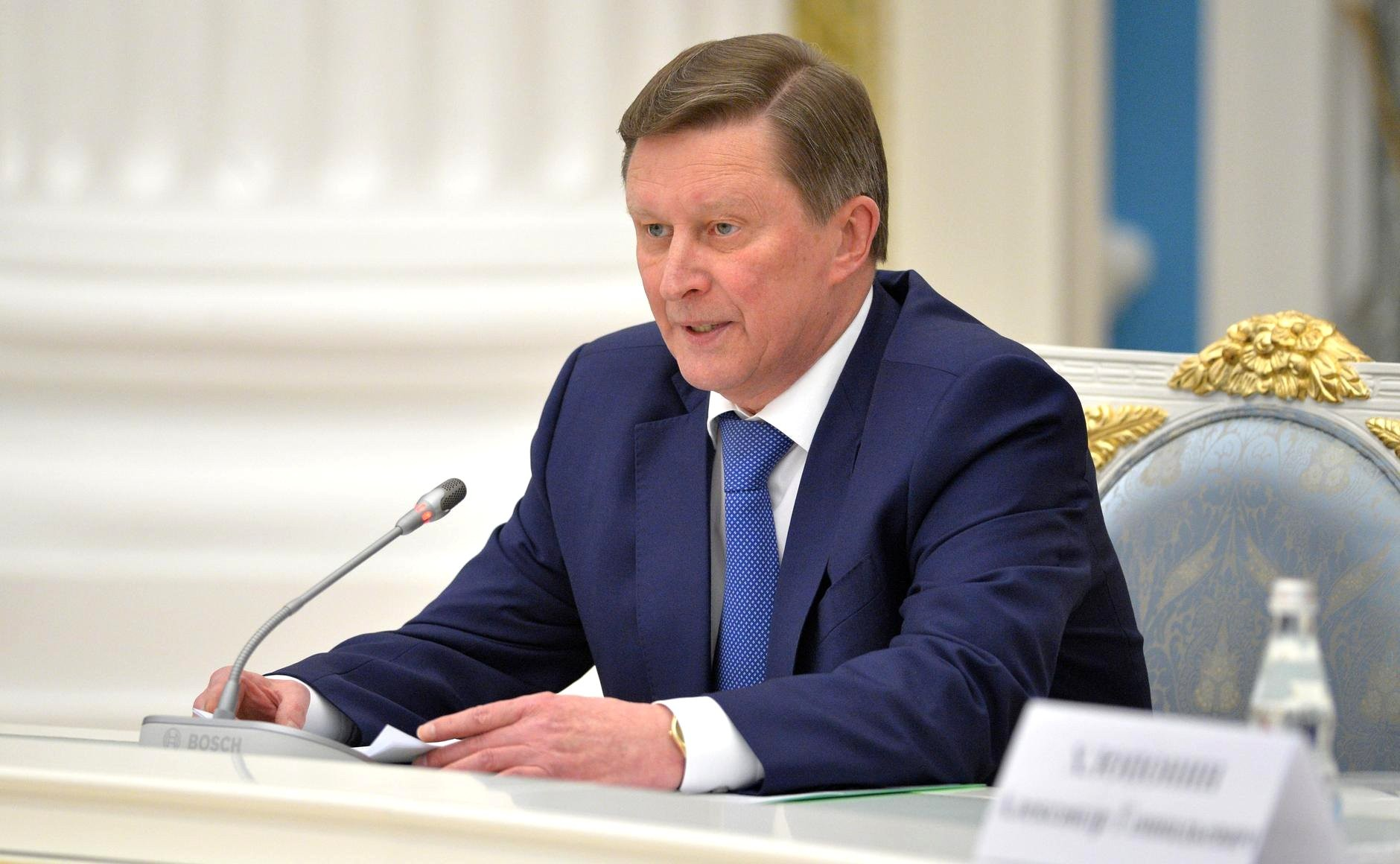 Sergei Ivanov chairs a meeting of the organising committee for the Year of the Environment 2017.